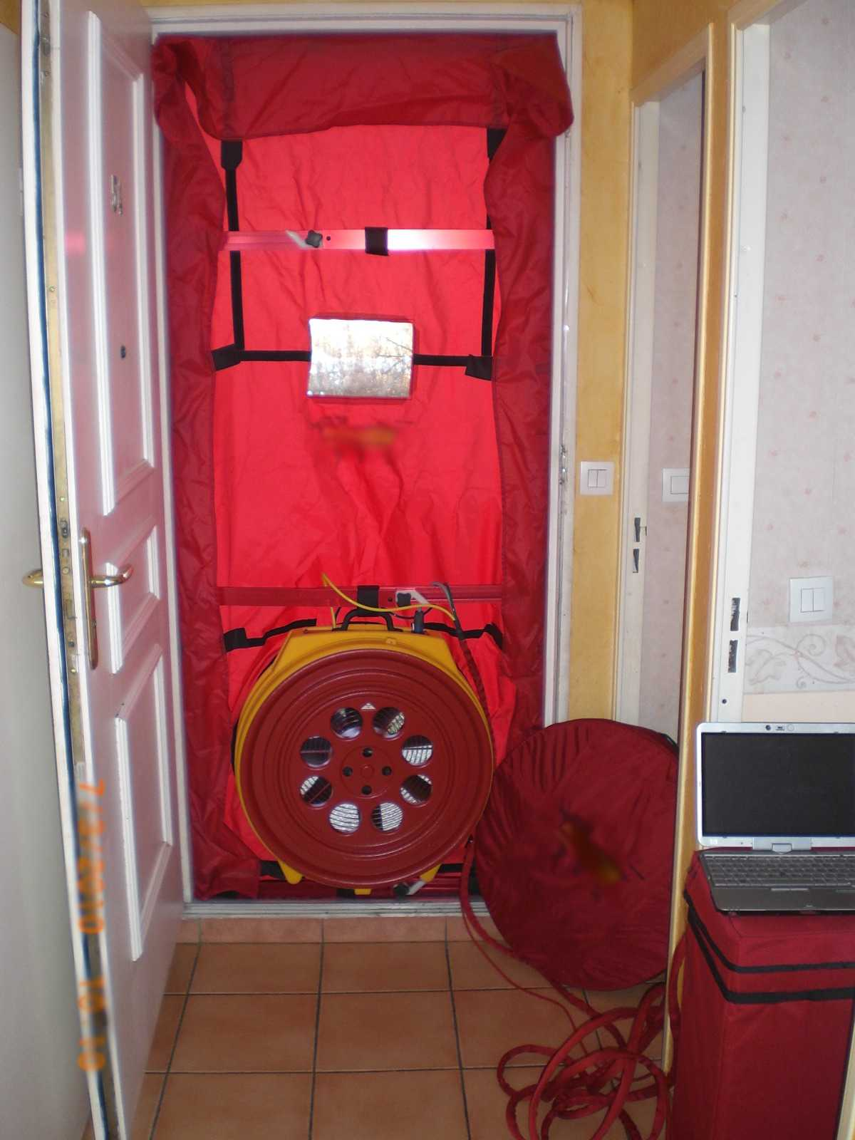 Related to Blower Door testing of housing: [1]